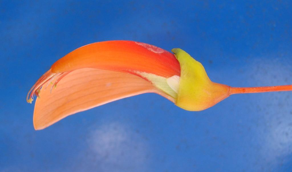 single flower of Erythrina mulungu (Erythrina verna ) - FABACEAE Campus UnB - Brasília - Distrito Federal - Brasil.